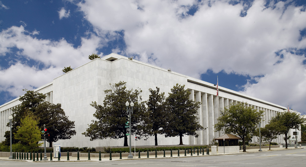 James Madison Memorial Building of the Library of Congress, located in Washington, D.C., the capital of the United States. The fourth floor has the United States Copyright Office.